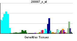 Gene expression pattern of the STAT1 gene.